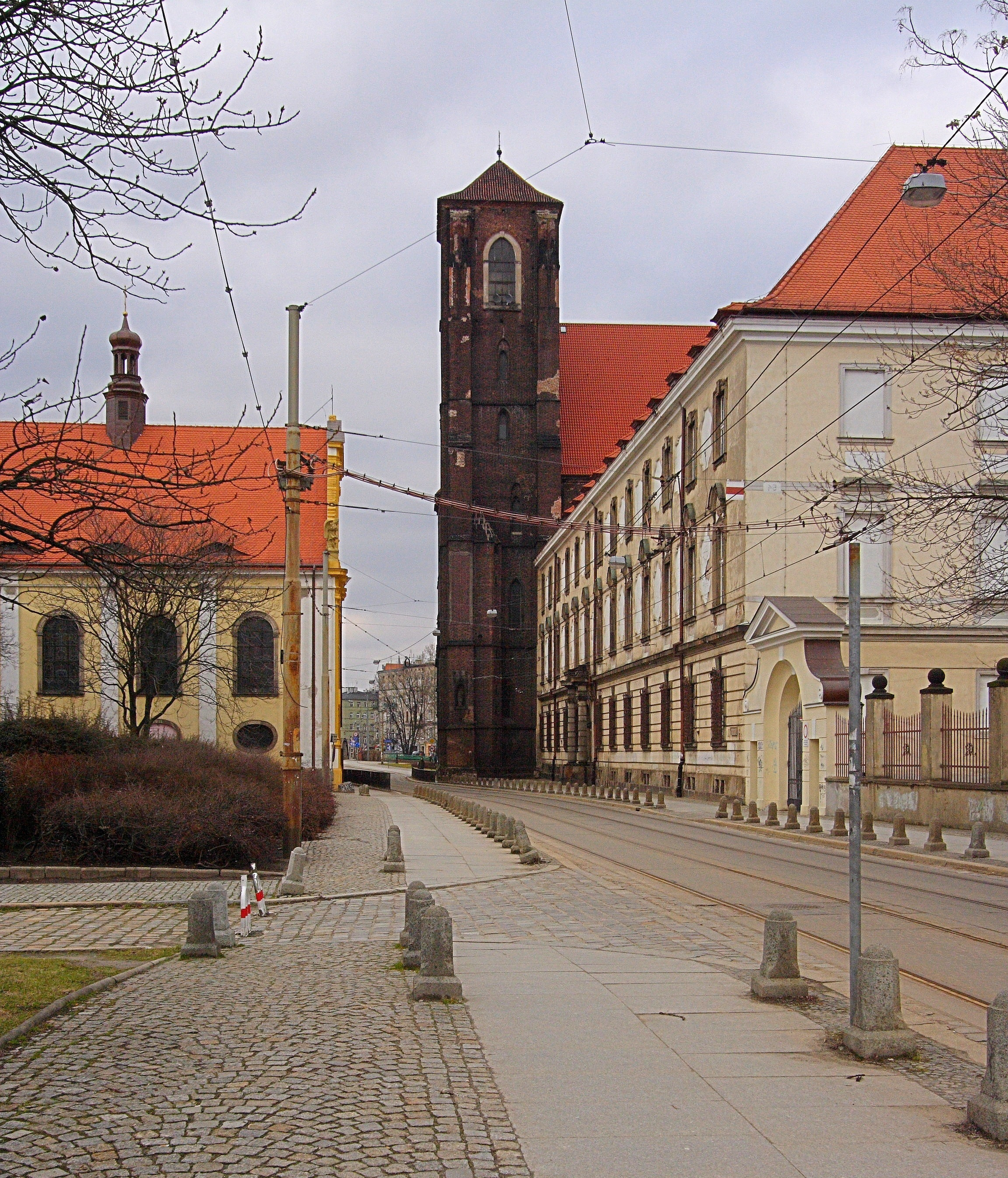 Wroclaw during WikiConference Poland'11